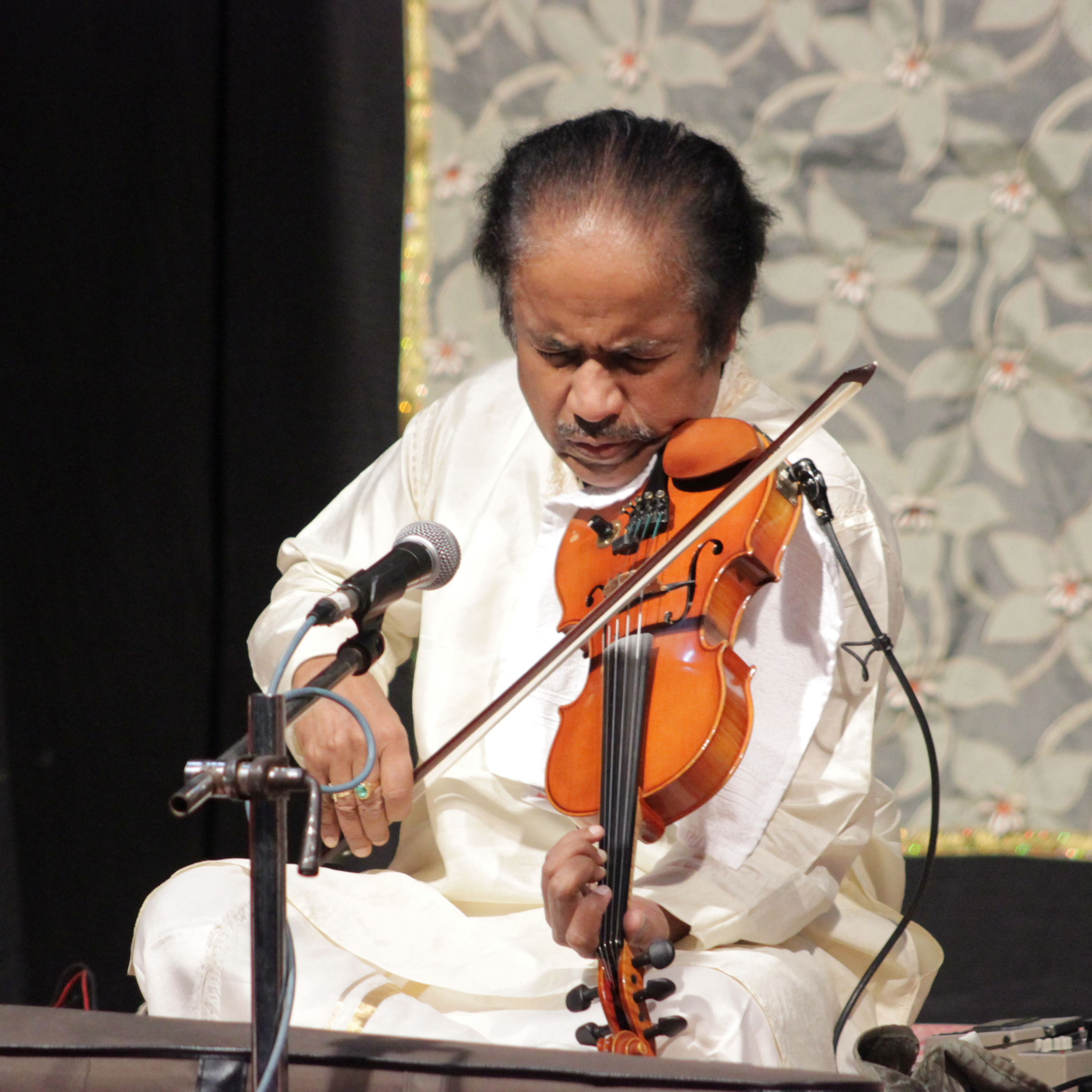 L. Subramaniam at Bharat Bhavan Bhopal